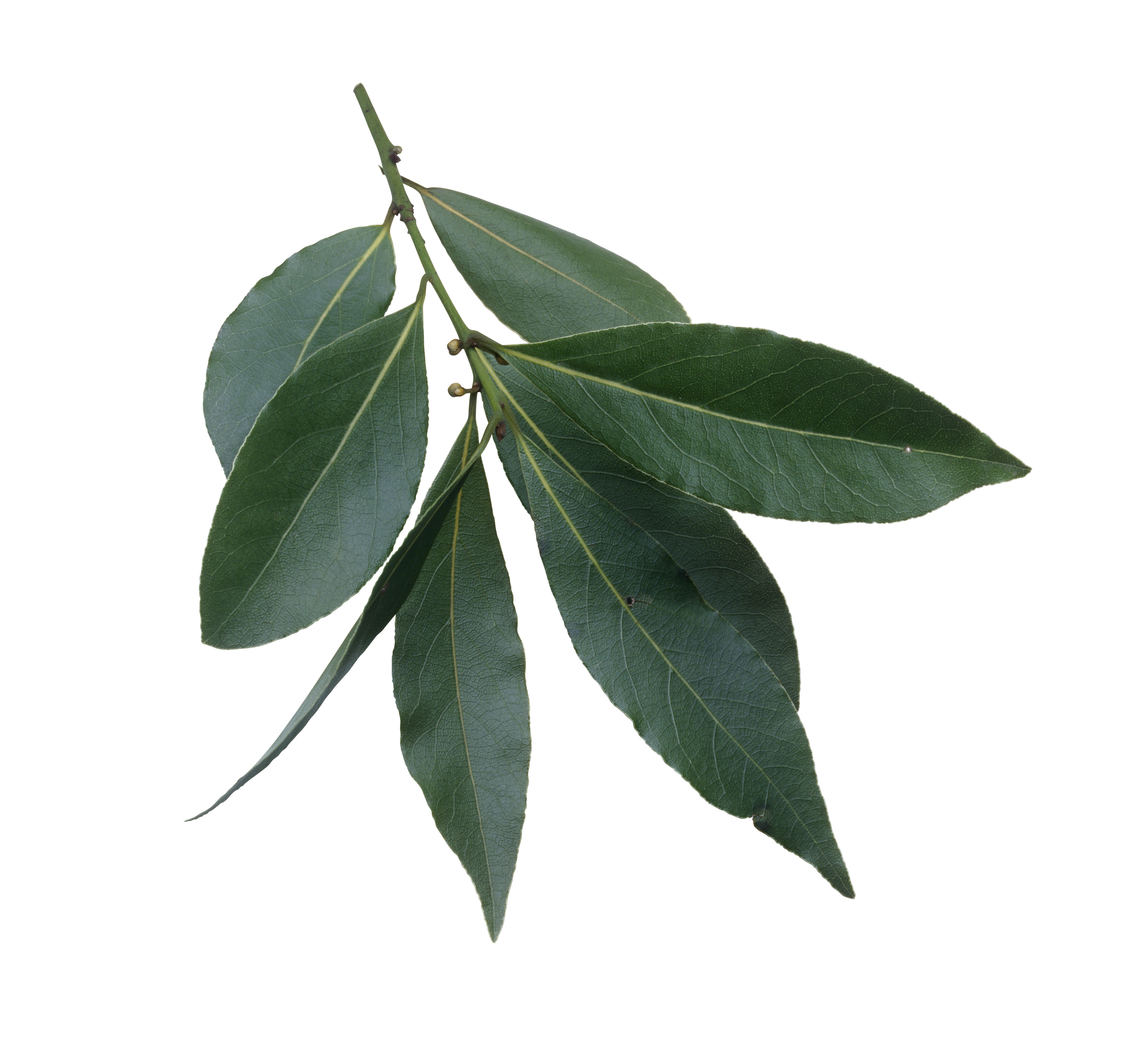 Laurus nobilis leaves